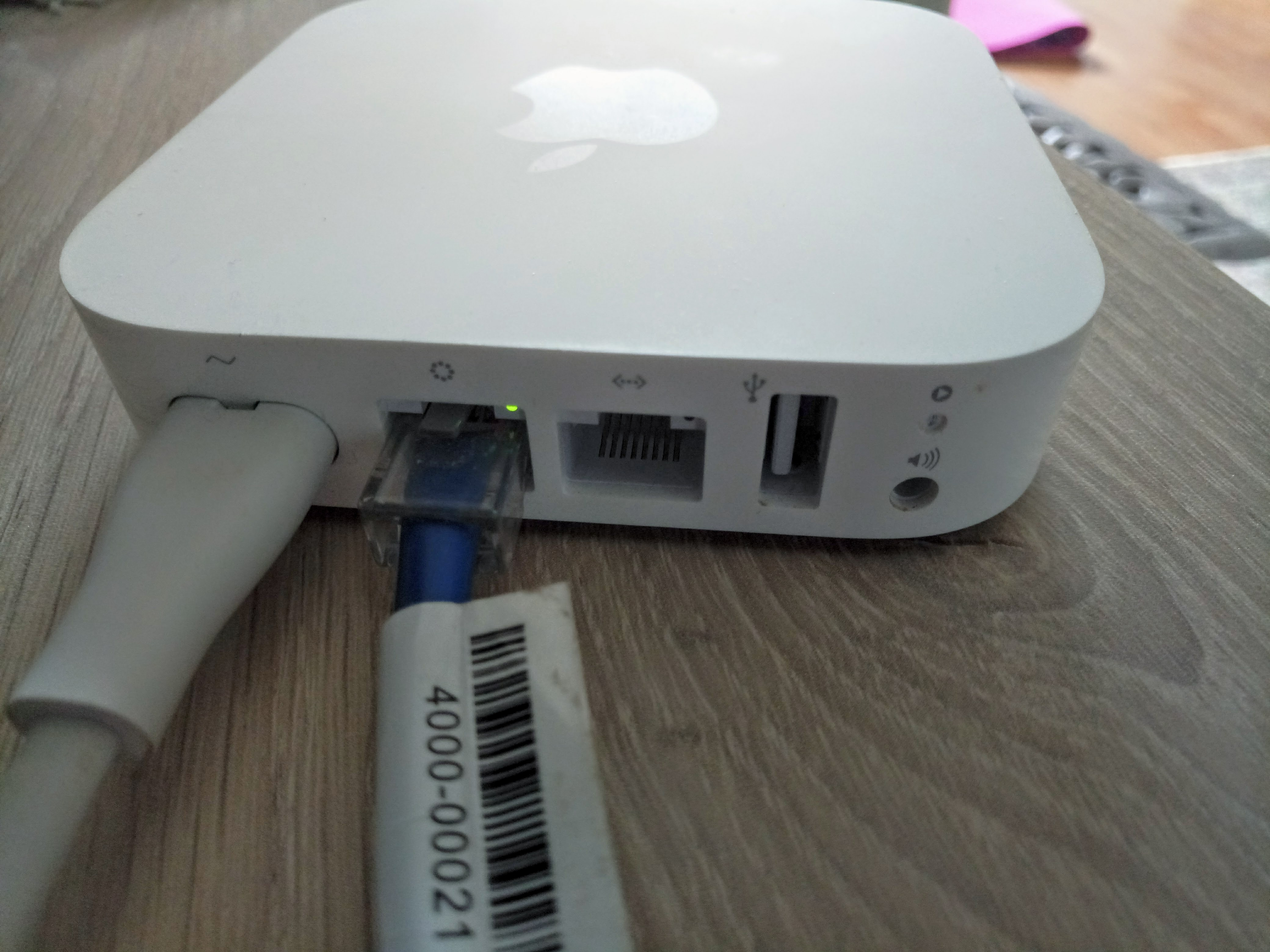 Apple Airport Express router